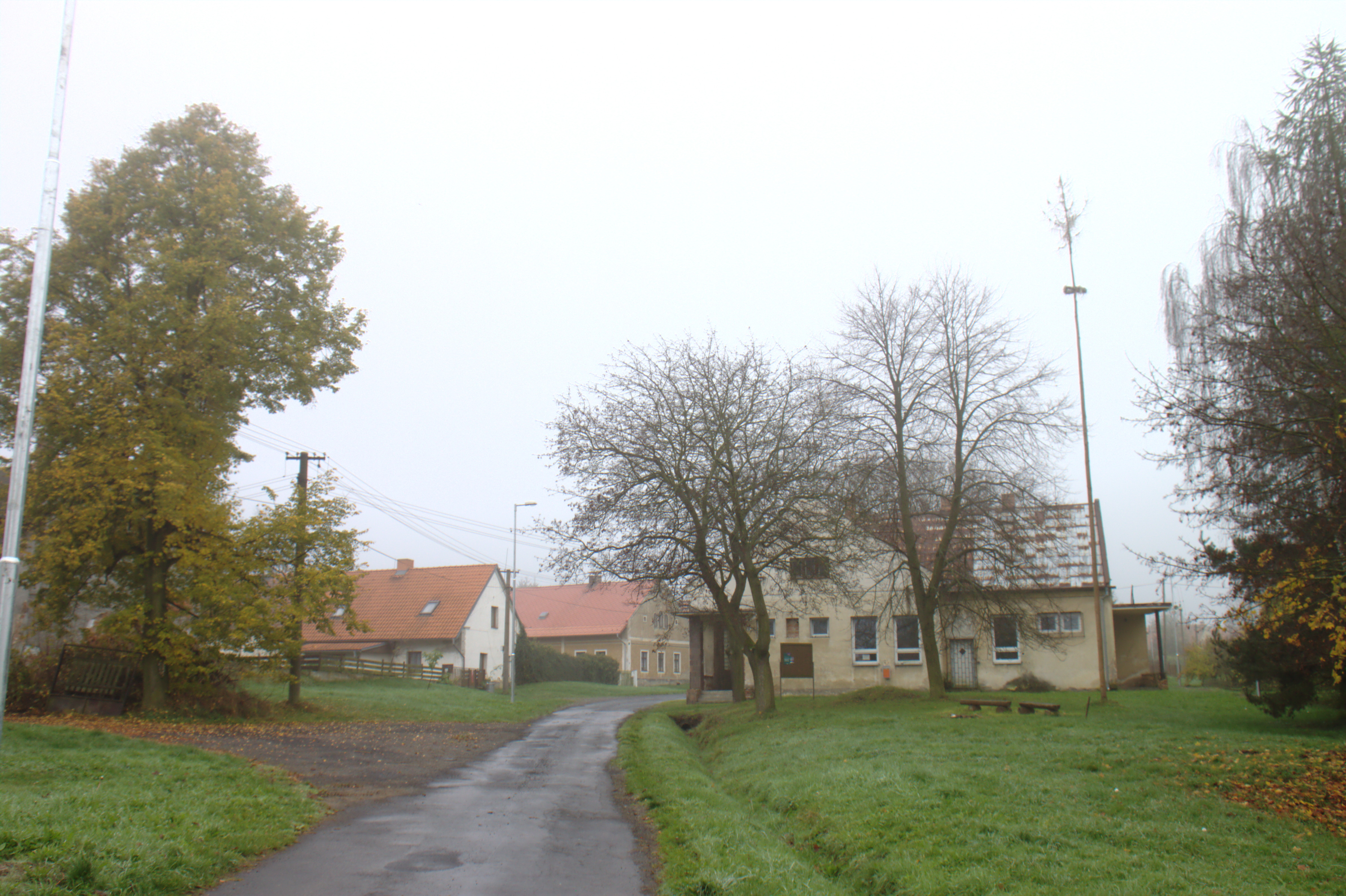 Protivec village, Karlovy Vary Region, CZ